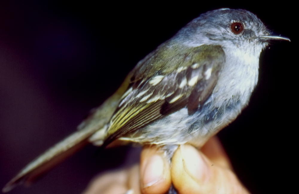 Myiopagis olallai coopmansi, from cloud forests of the northern Central Andes in Amalfi- Anorí, Antioquia, looks a bit like females of M. caniceps of southern South America and the Atlantic forest, yet its songs and habitat resemble those of the yellowish M. olallai from Ecuador and C Peru. We described coopmansi recently in a paper published in Zootaxa (pdf). Some (faint) songs are available at xeno-canto. If for some reason this photo reminds you of the "green morph" of M. caniceps in Birds of Northern South America (plate 188, 7), it's because Robin painted that one based on this and other photos of this coopmansi specimen and the 1940 incognita specimen taken by W. H. Phelps.